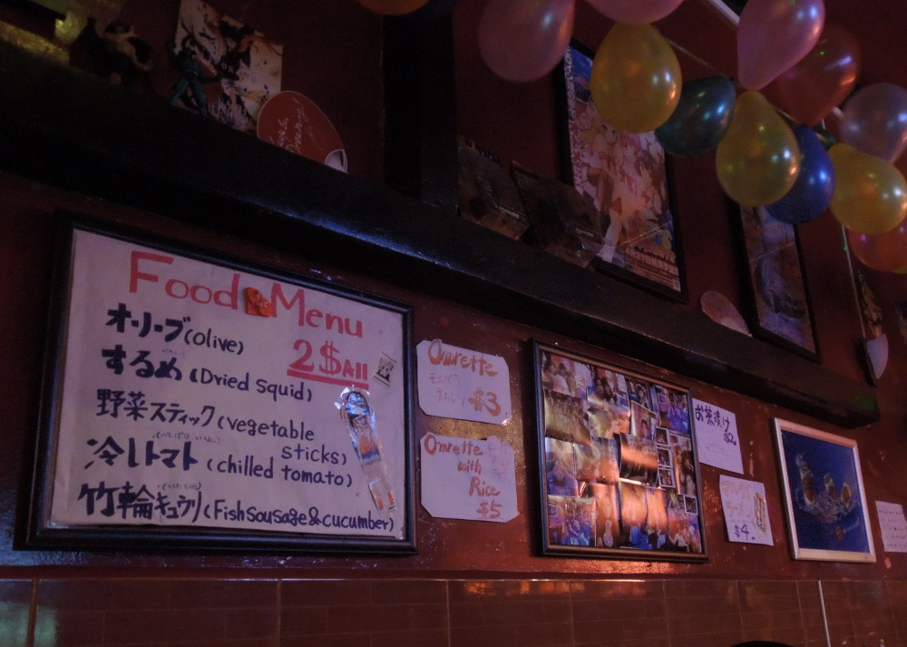 Japanese style Maid cafe at PhnomPenh Cambodia.